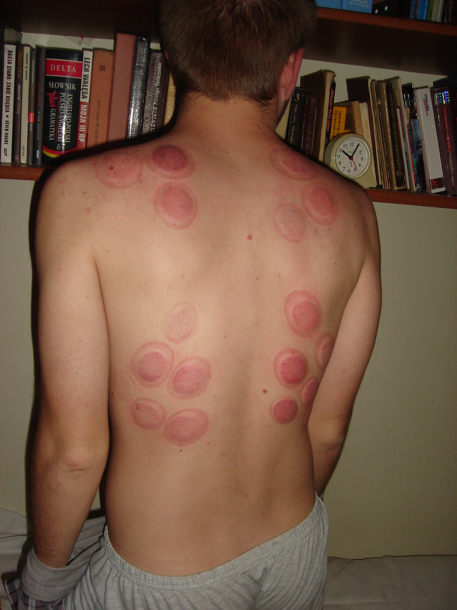 Fire cupping marks